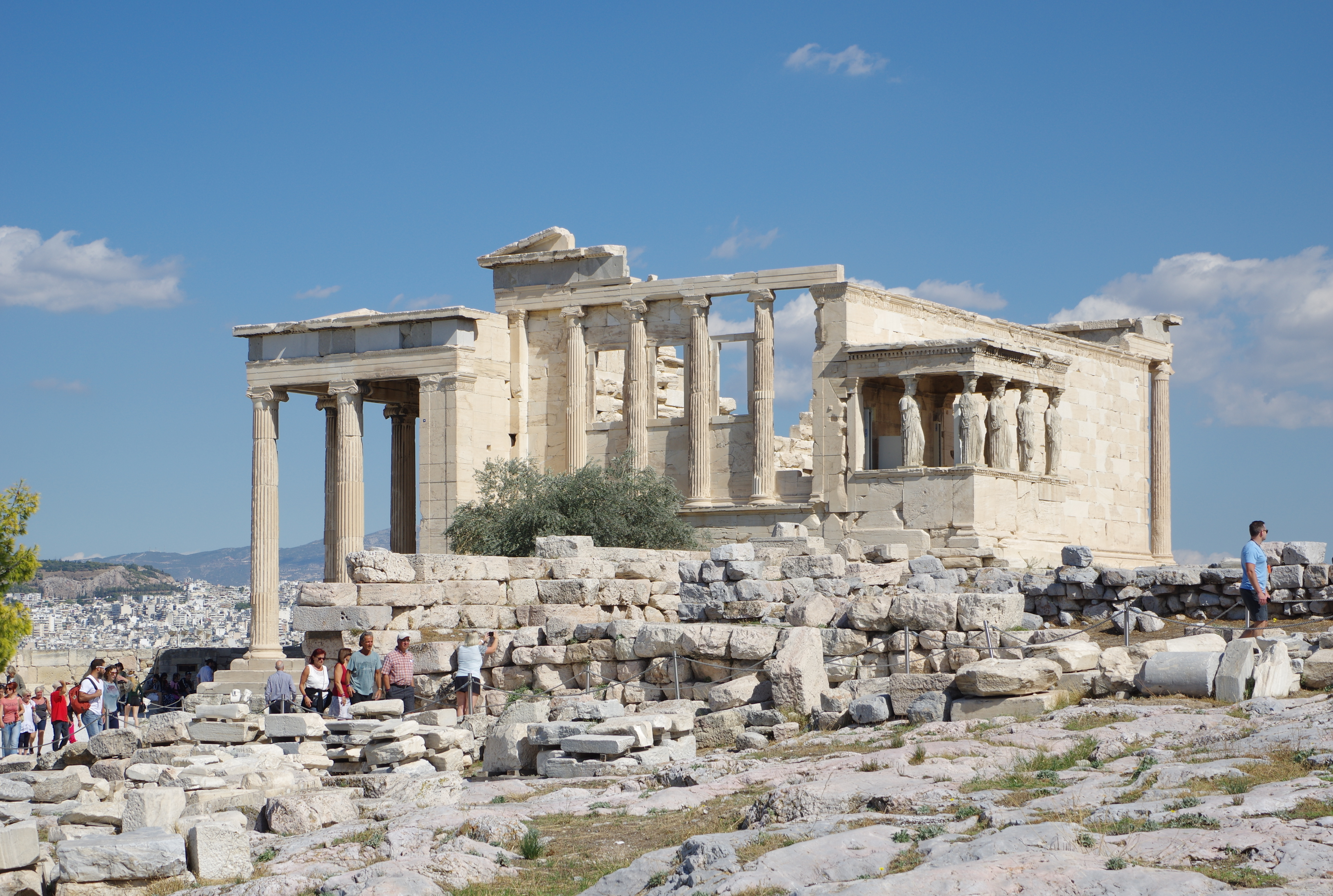 Greece, Athen, Acropolis, Erechtheum